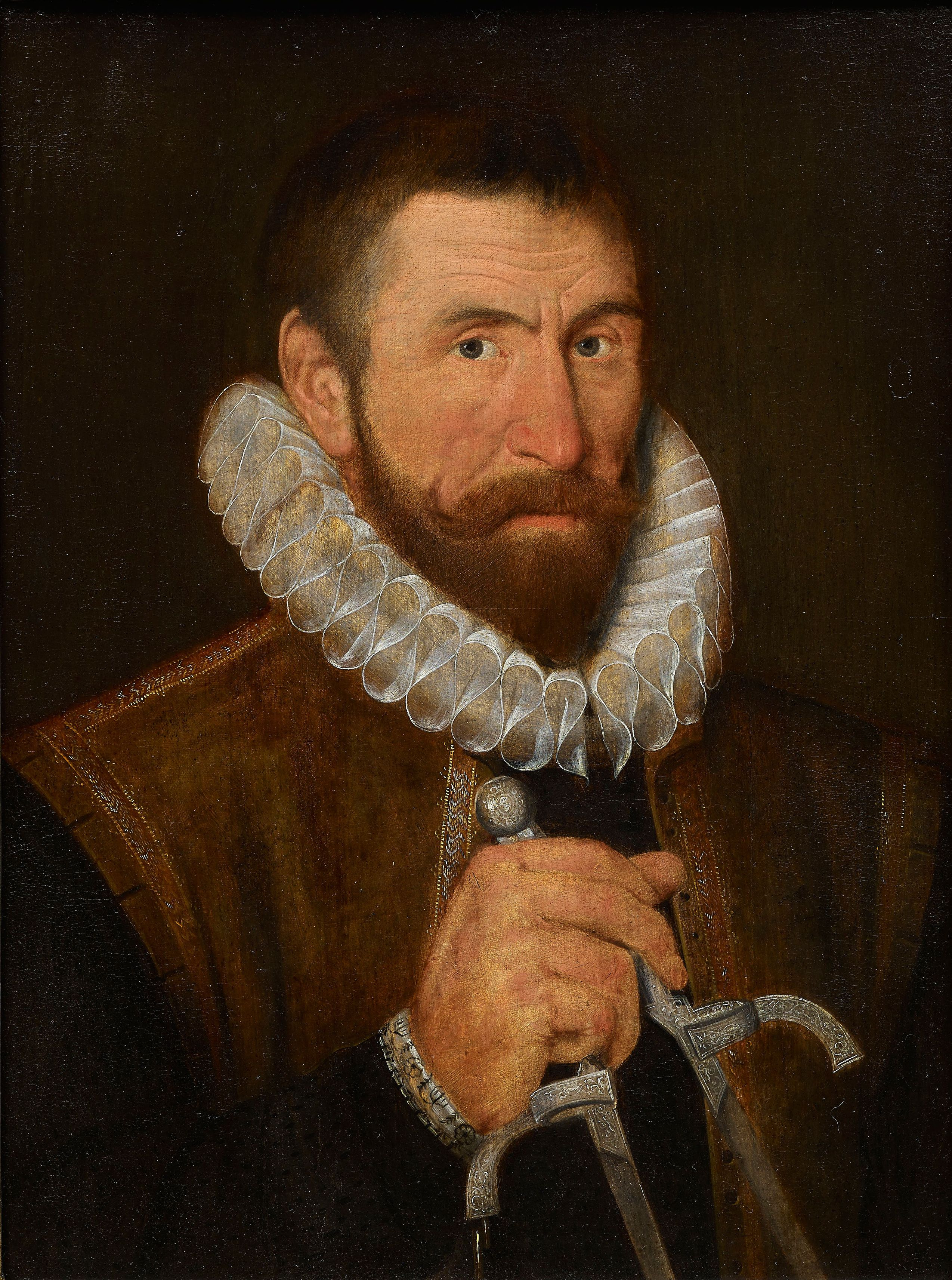 Portrait of the mason and architect Ralph Symons (fl.1580-1610), c. 1602, wearing a linen ruff, a gold-trimmed leather jerkin, and a shirt with blackwork embroidery, holding a pair of architect's compasses.